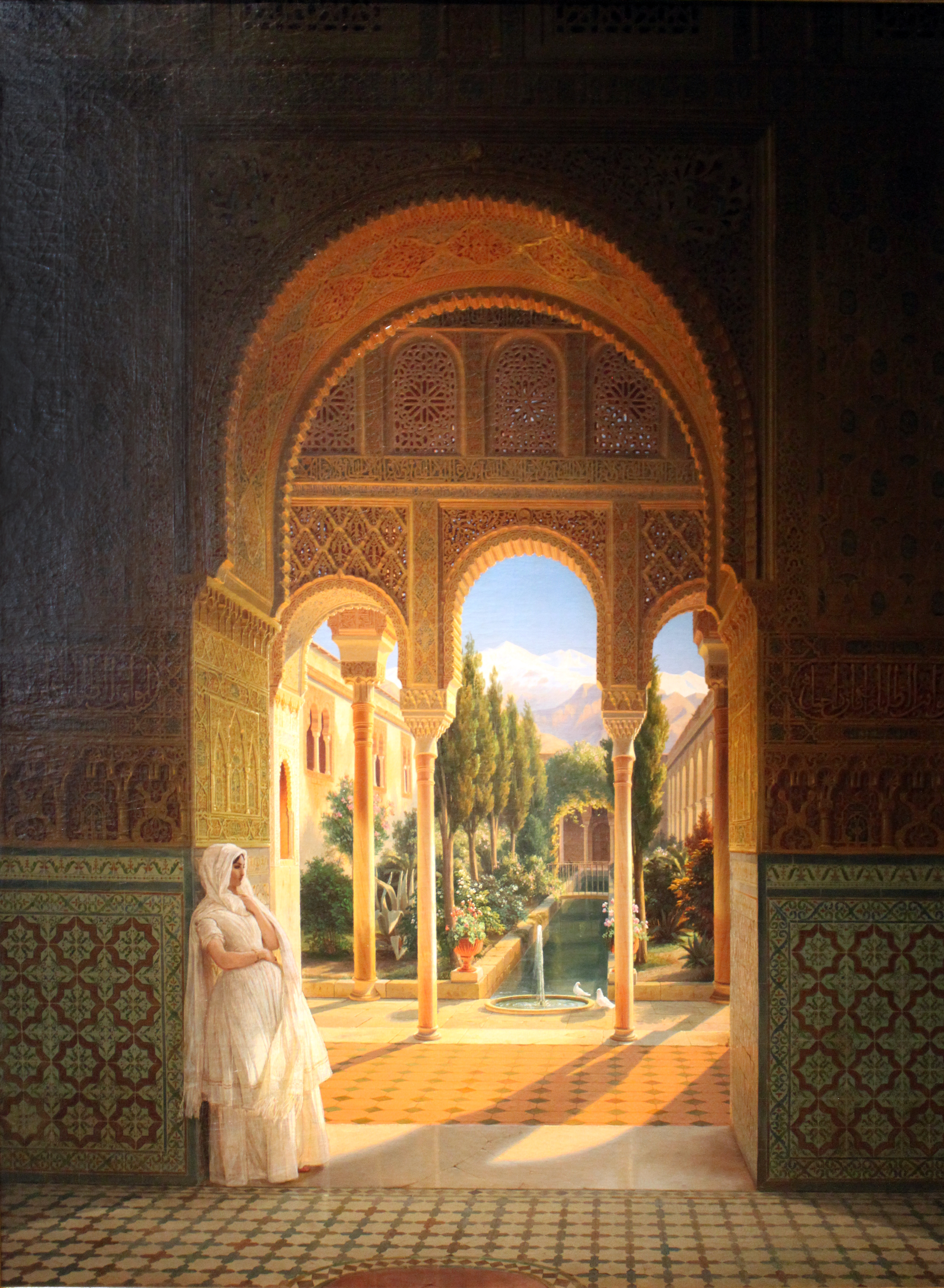 Palacio del Generalife and Patio de la Acequia near the Alhambra in Granada